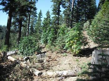 Concow Pot Garden Image by the United States Forest Service and Butte County Sheriff's Department - See more at